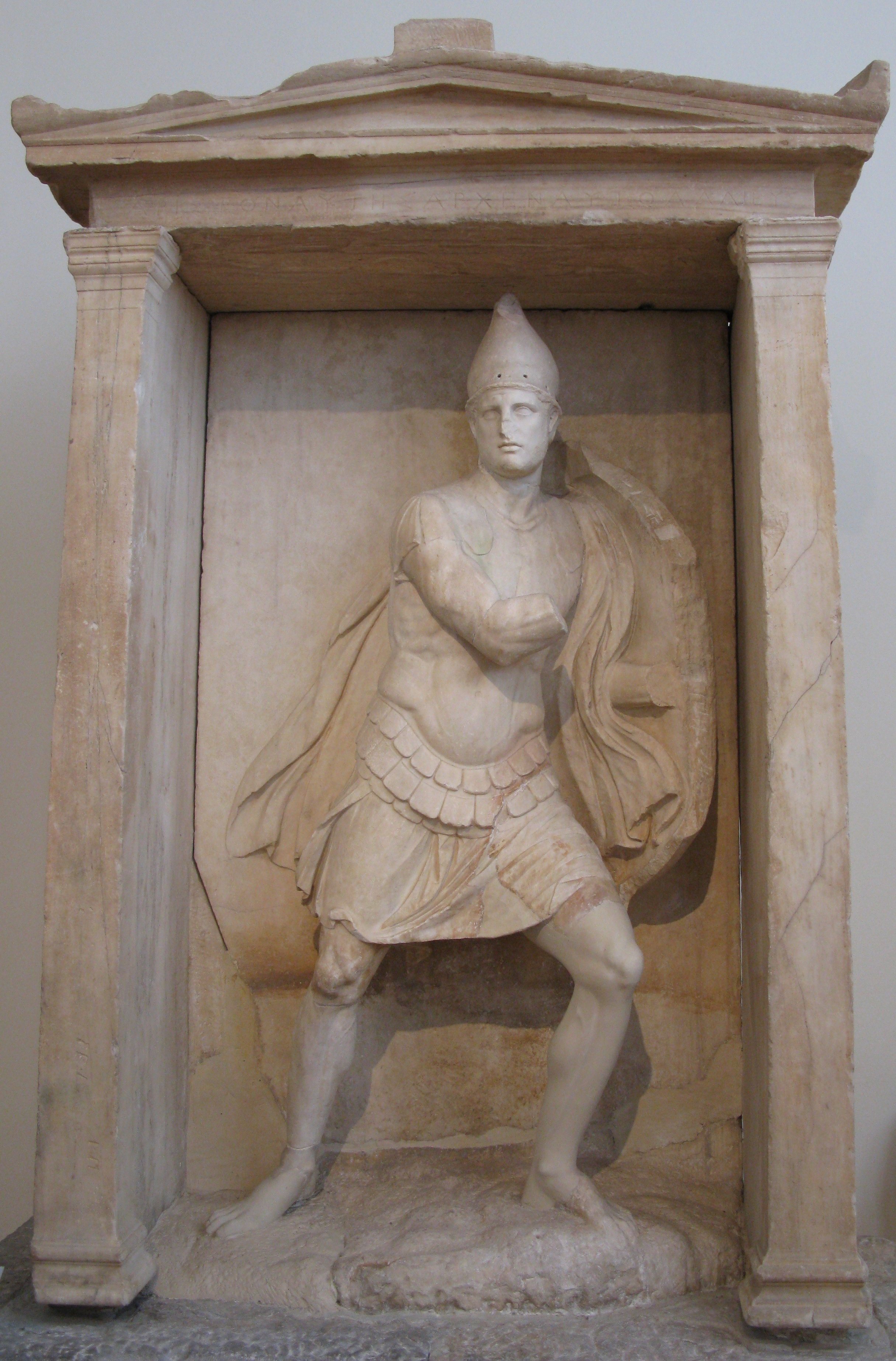 Funerary naiskos of a young soldier (Aristonautes, son of Archenautes, of the deme Halai, as warrior). Pentelic marble, h. 2.48m, found in the Kerameikos necropolis in Athens, ca. 350/325 BC., now in National Archaeological Museum in Athens.